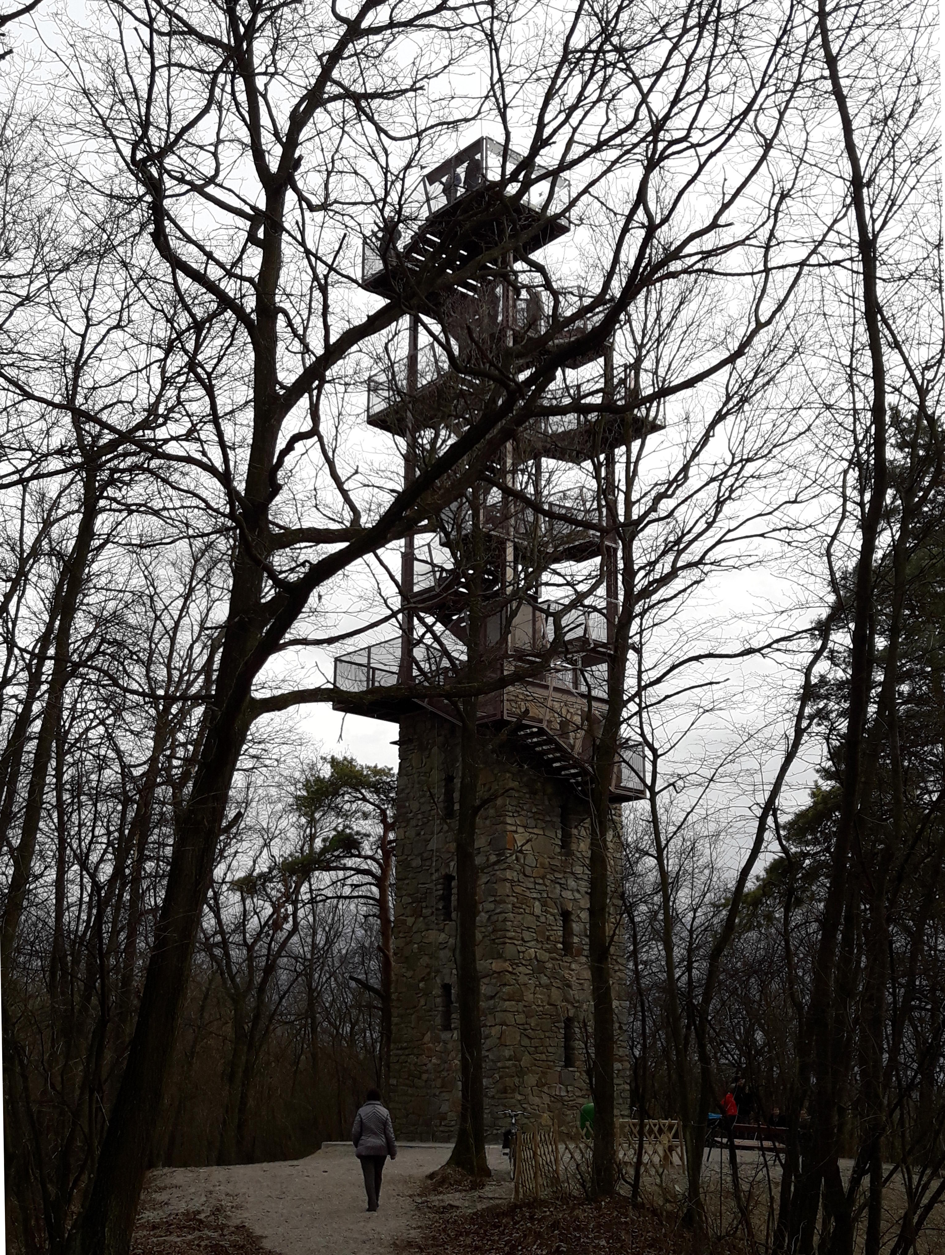 Koliskowarte, observation tower near Hollabrunn, Austria